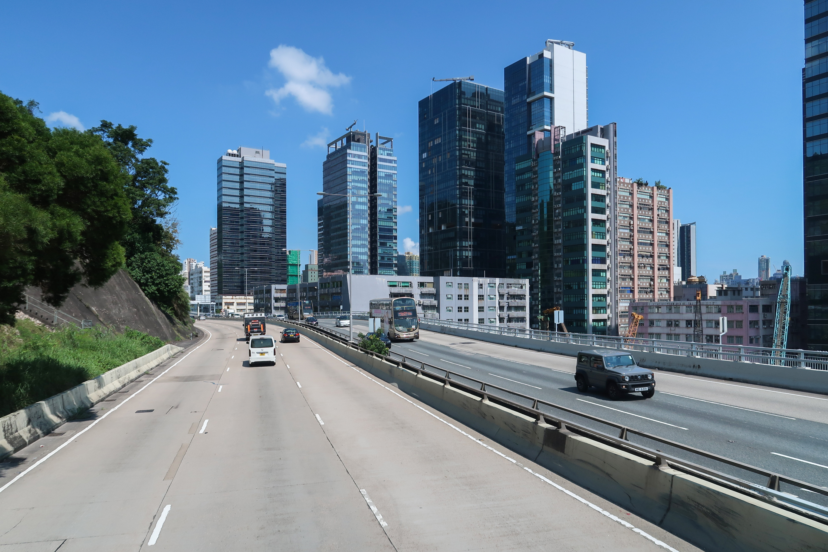 Ching Cheung Road near Cheung Sha Wan